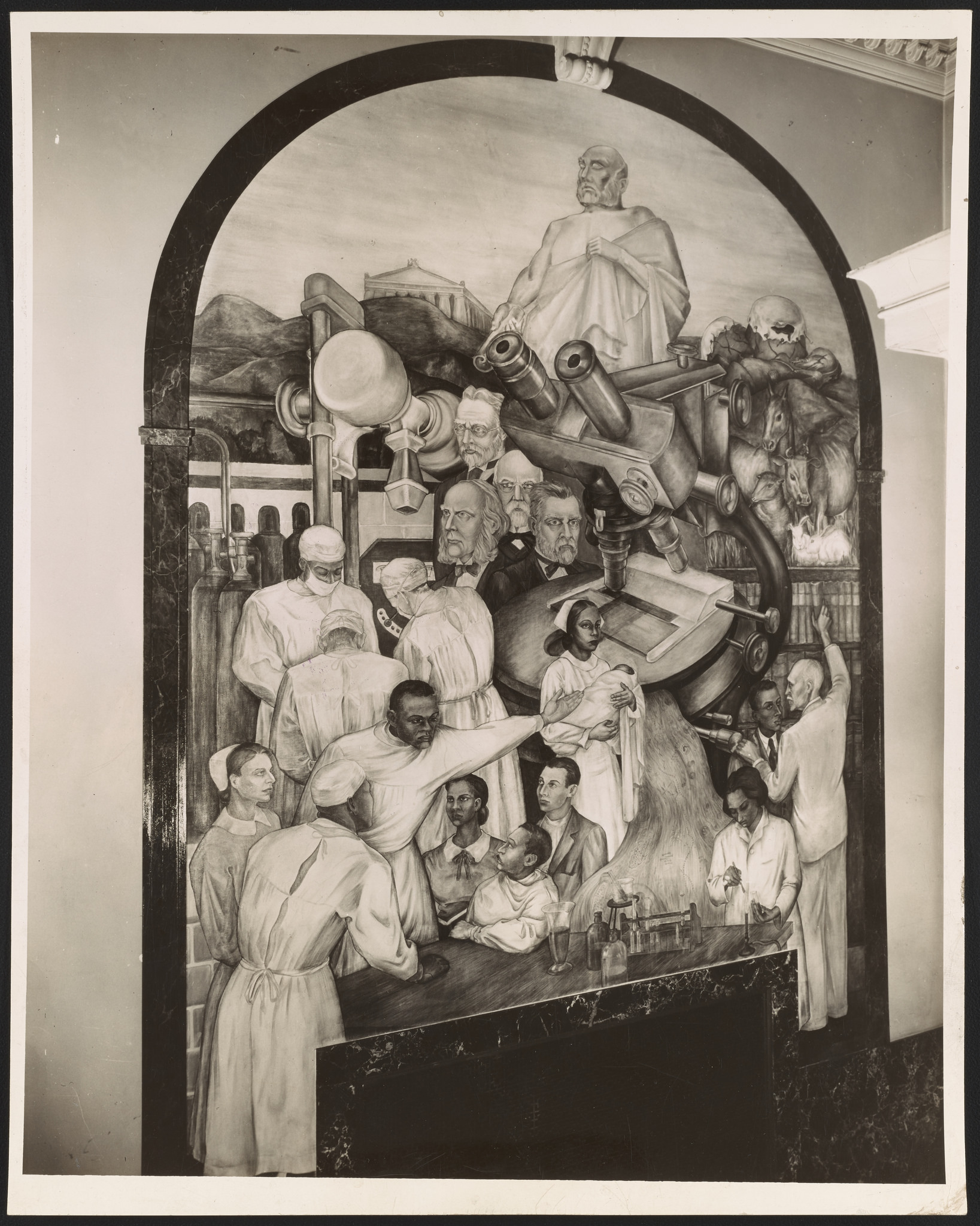 “Modern Science in Medicine” by Charles Alston, women’s pavilion foyer of Harlem Hospital, photograph by Levy for the WPA/FAP Photographic Division, series 155, exhibit EL, approved March 12, 1940. photographic print, 8 x 10 in.